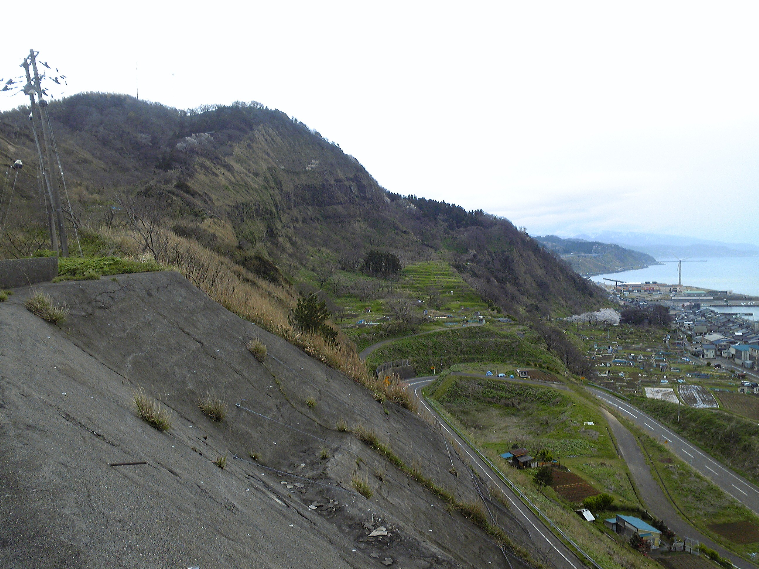 'Nadachikuzure'. Landslide of Nadachi Town in Niigata, Japan.